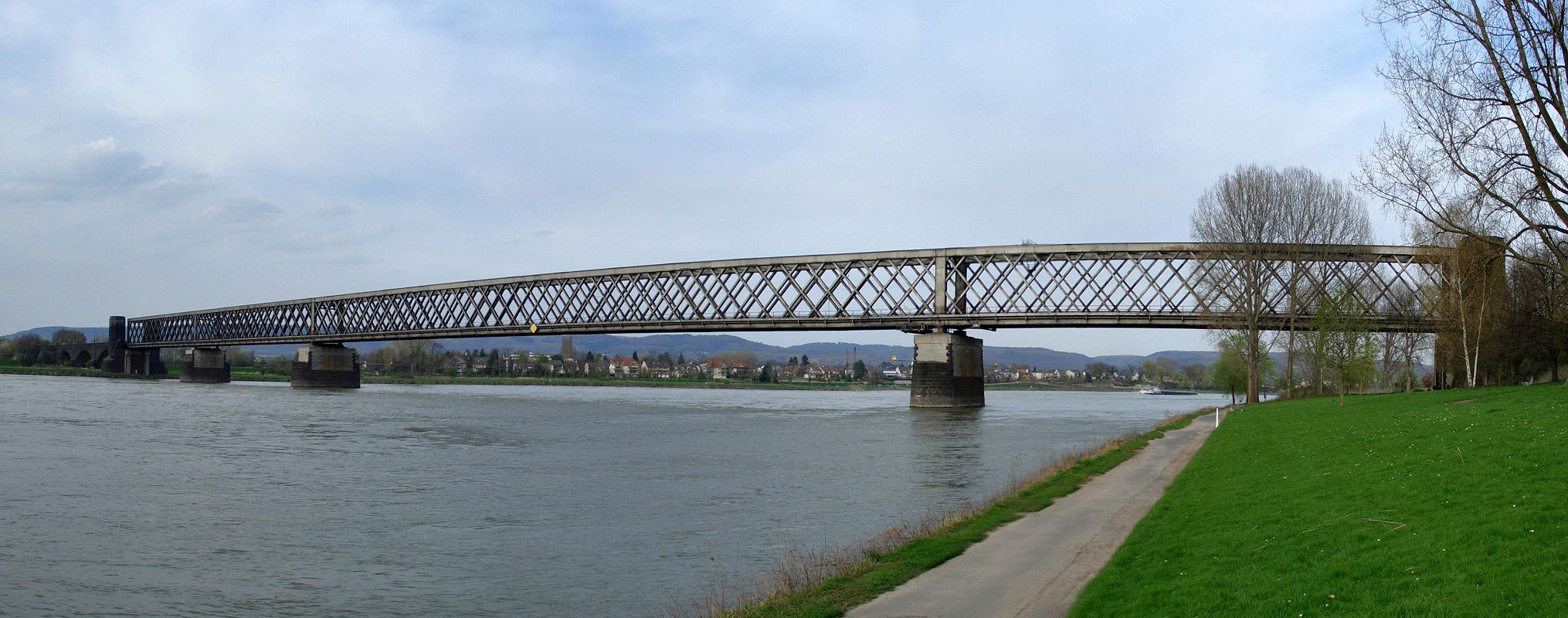 Urmitz railway brigde